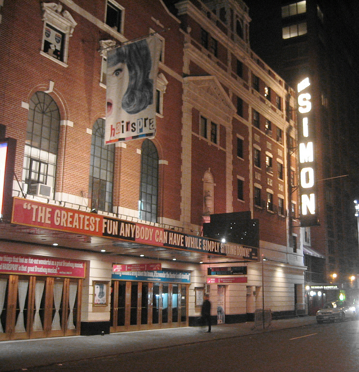 Neil Simon Theatre, showing Hairspray 52nd Street, Manhattan, New York City